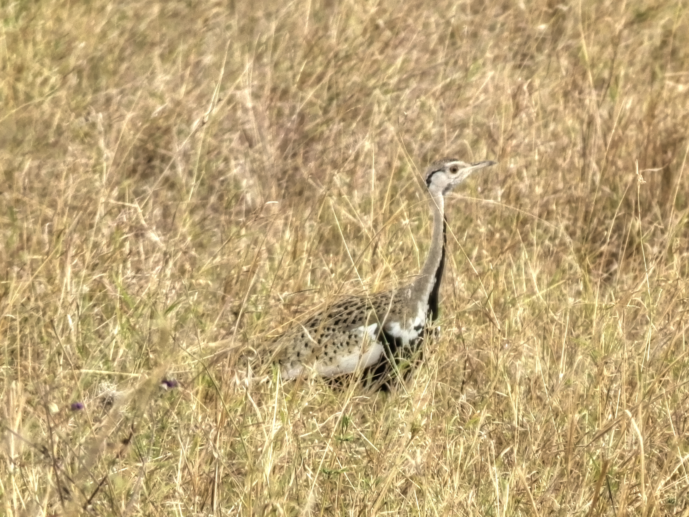 Lissotis melanogaster in Tanzania